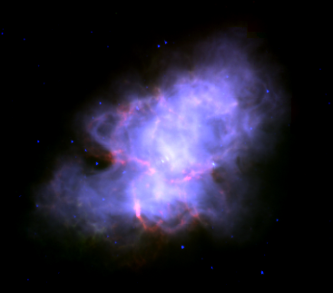 Image of the Crab Nebula in Infrared at 3.6 (blue), 5.8 (green) and 8.0 (red) µm. The image has been made by myself (Médéric Boquien) from the public image archive of the Spitzer Space Telescope (courtesy NASA/JPL-Caltech). For each band, the *maic.fits images were combined using IRAF imcombine with the parameters combine=median; reject=none; offsets=wcs. The final color image was made using DS9 with the following command line: ds9 -rgb -red ch4/pbcd/ch4.fits -scale limits 10 60 -green ch3/pbcd/ch3.fits -scale limits 3 50 -blue ch1/pbcd/ch1.fits -scale limits 1 15 -view colorbar no.